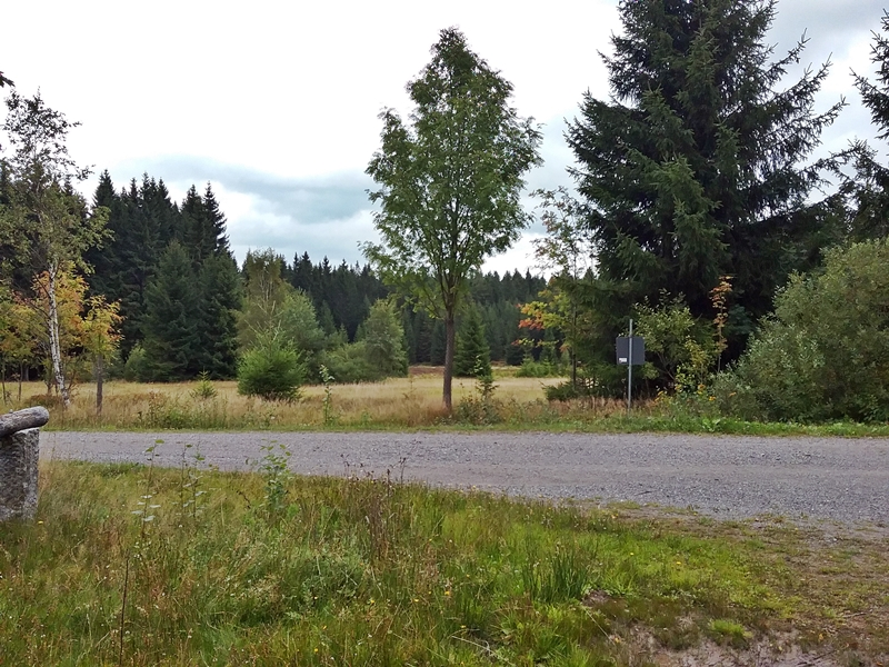 Nature reserve Kleiner Kranichsee, Butterwegmoor and Henneberger Hang